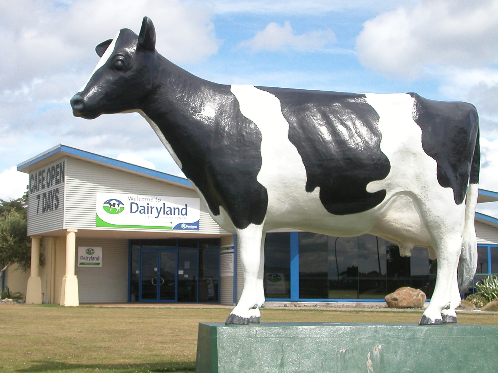 Cow sculpture outside Dairyland, South Taranaki (2003). Visitor centre and cafe promoting Fonterra.